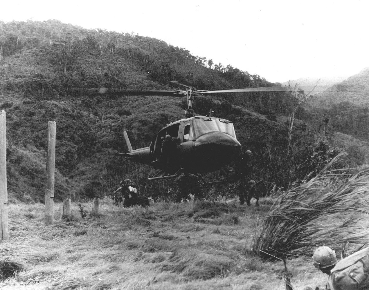 12th Cav. Making a combat assault, 12th Cav., 1st Air Cav. Div., Vietnam.